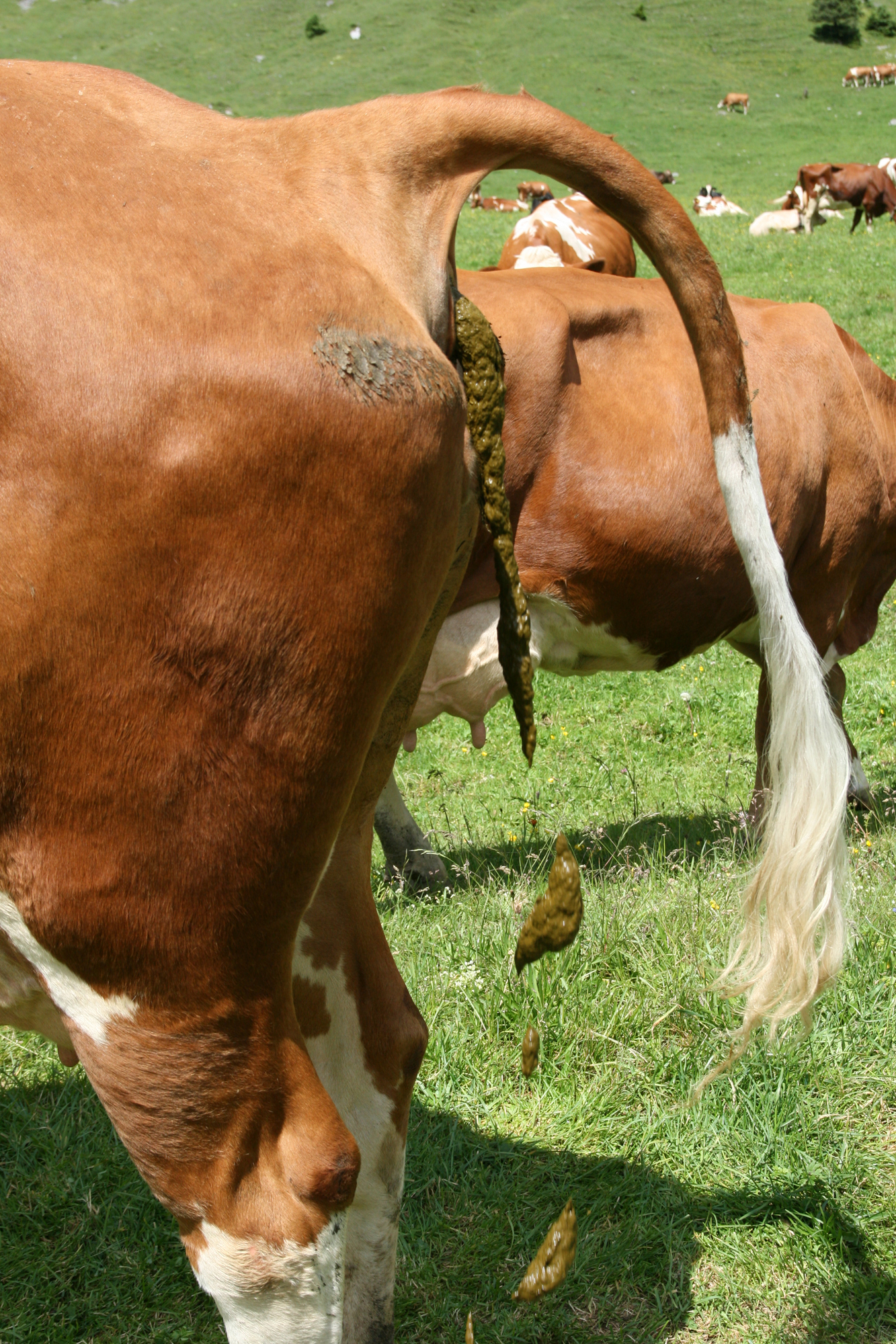 Cattle, colloquially referred to as cows, are domesticated ungulates, a member of the subfamily Bovinae of the family Bovidae. As shown: Simmental is a brown-white cattle breed originating in the Simme valley in Switzerland.